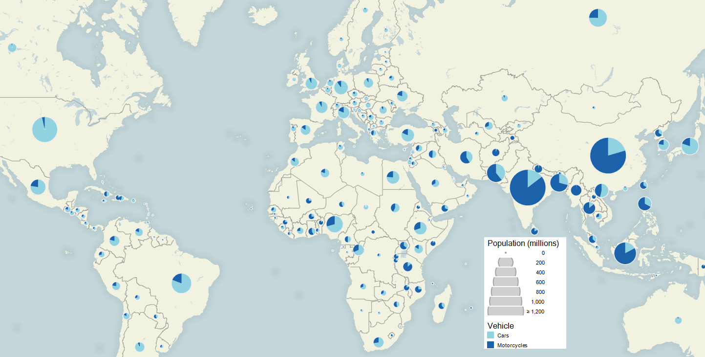 Number of cars and number of motorcycles for each country, with size showing population. In millions. Data from 2002. Source data Worldmapper. Created with Tableau Public.